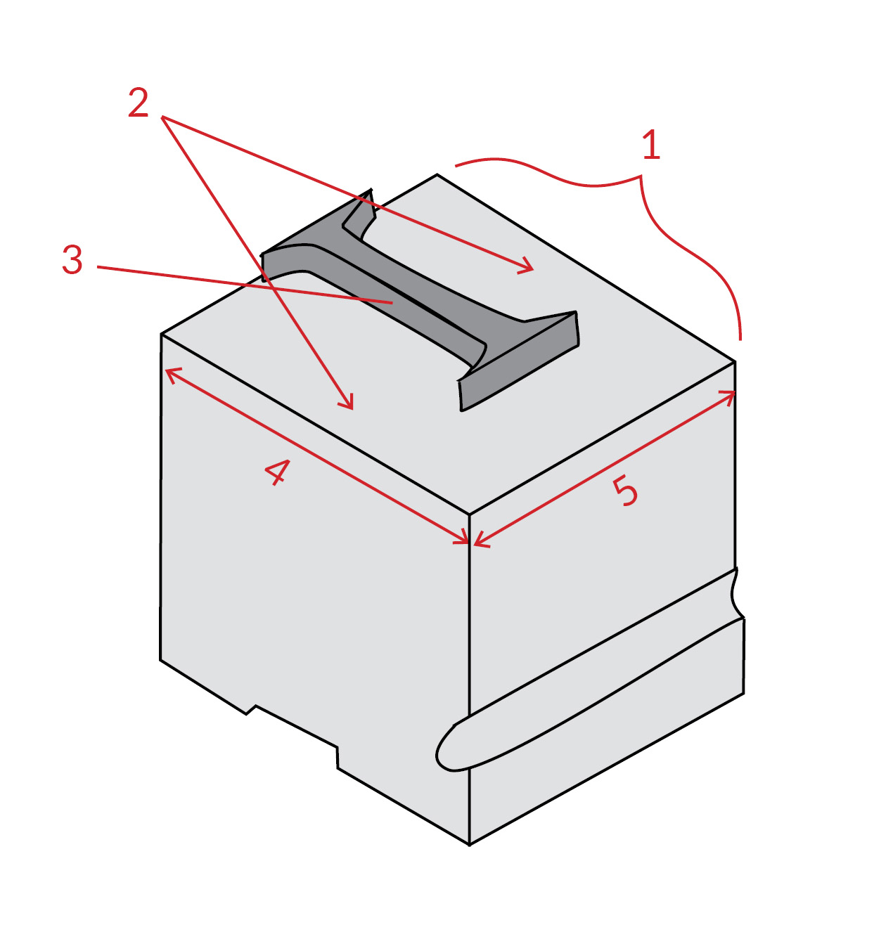 The body by the example of a type. 1 – body; 2 – sidebearings; 3 – face; 4 – body height (type size); 5 – advance width